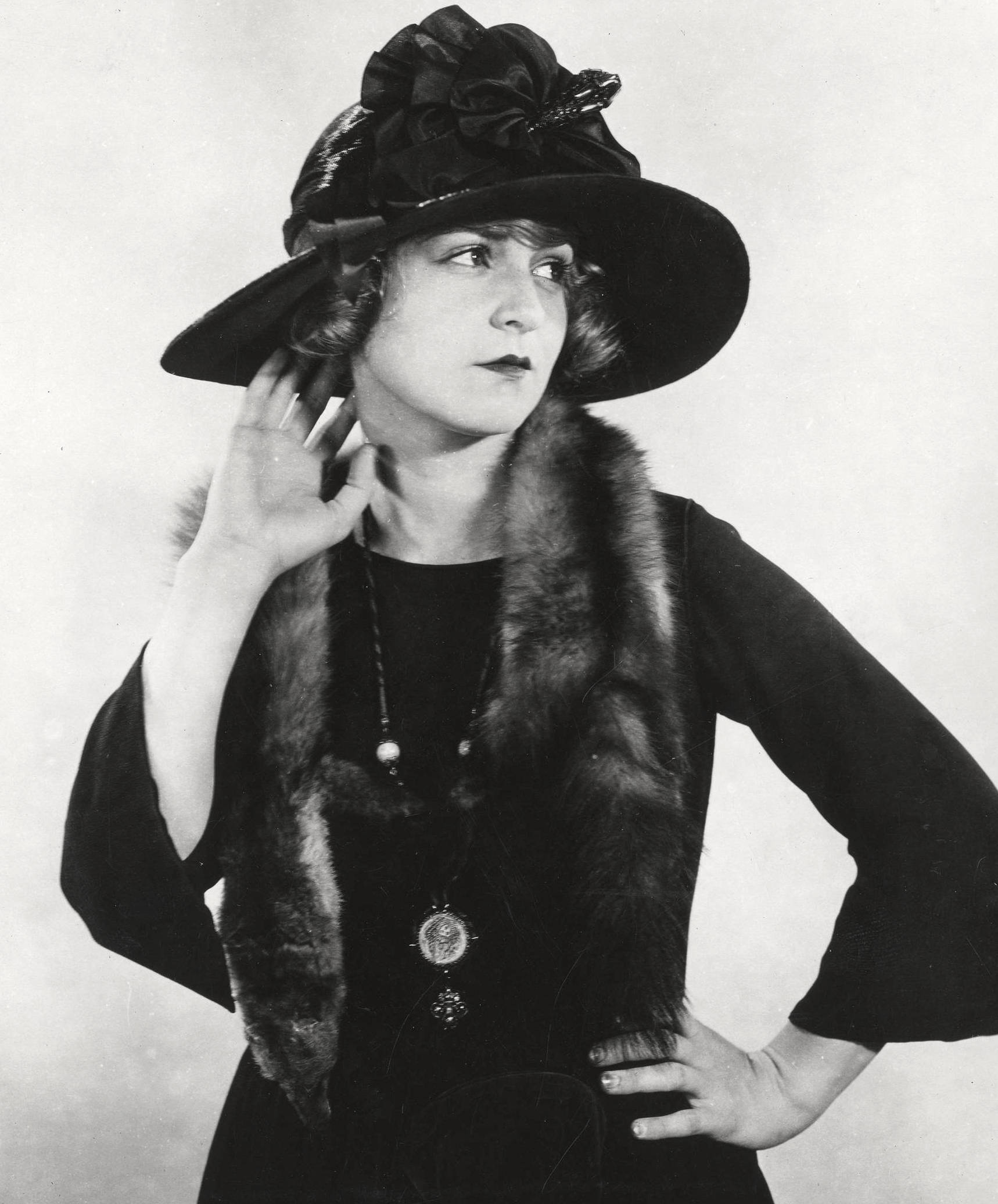 Helen Lynch, silent film actress Subjects: actresses